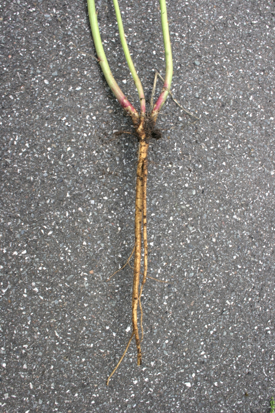 Melilotus albus: Root system